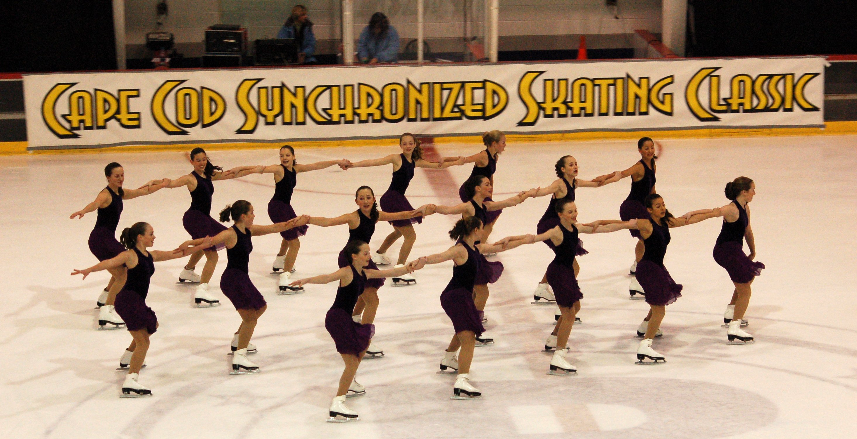 Synchronized skating team practicing their routine